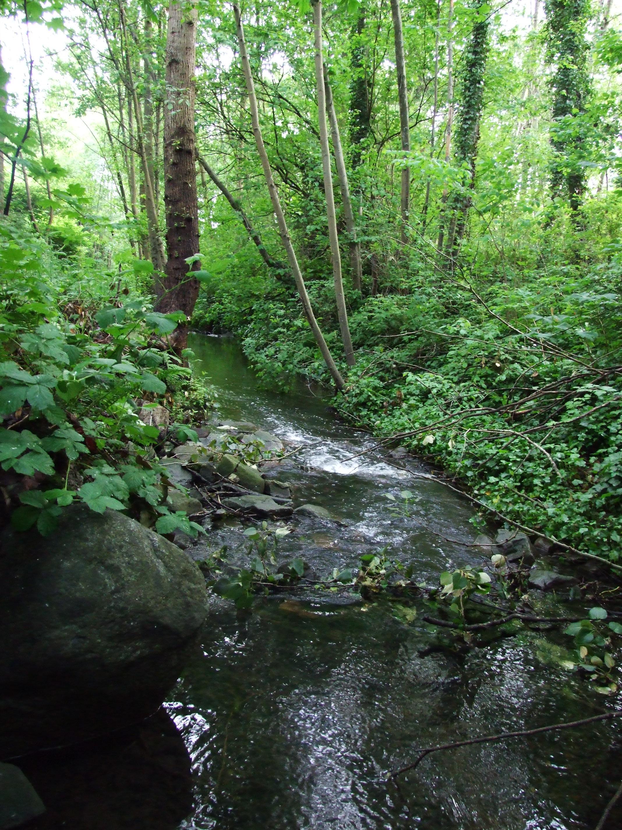 Beecher Creek in Burnaby, British Columbia